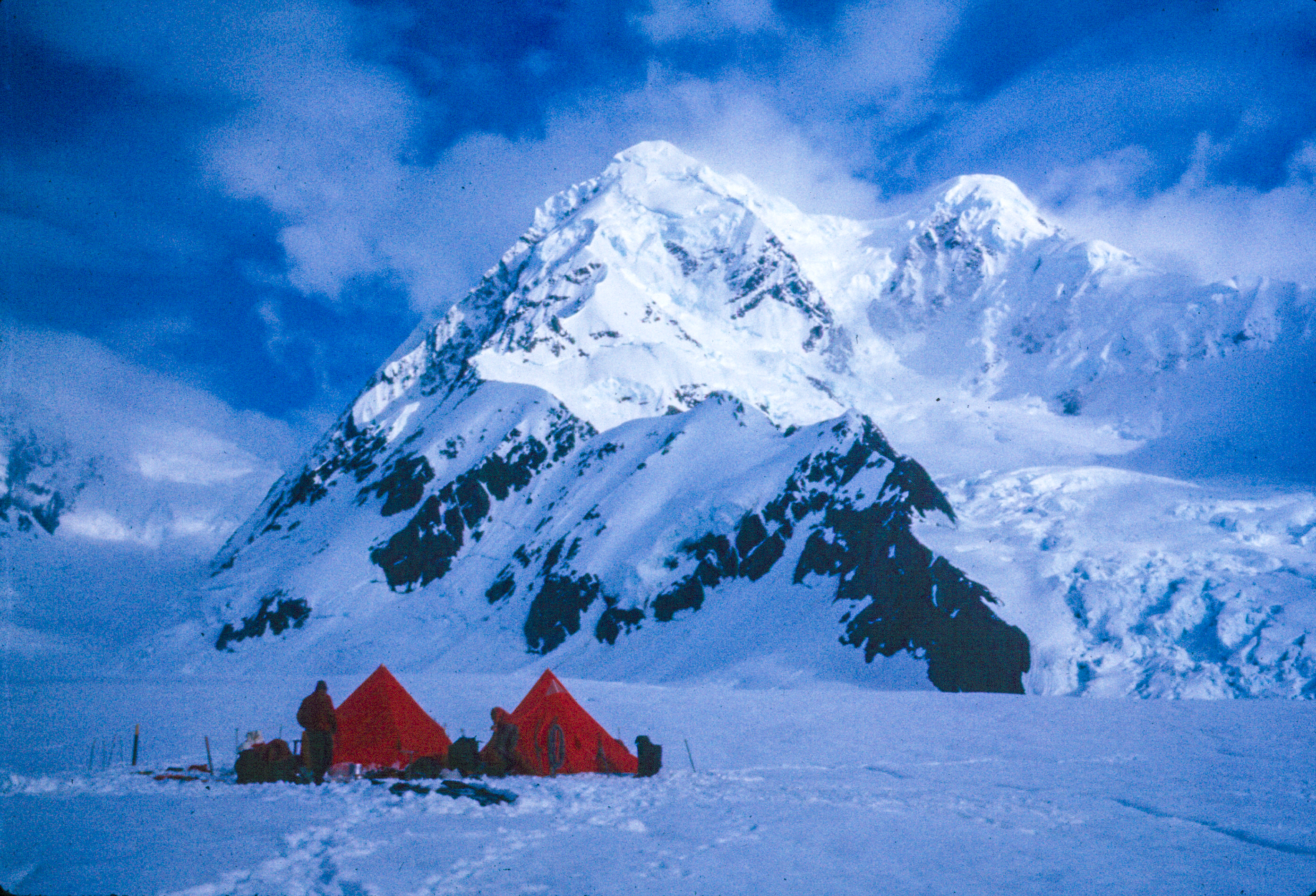 King William Island, Canada